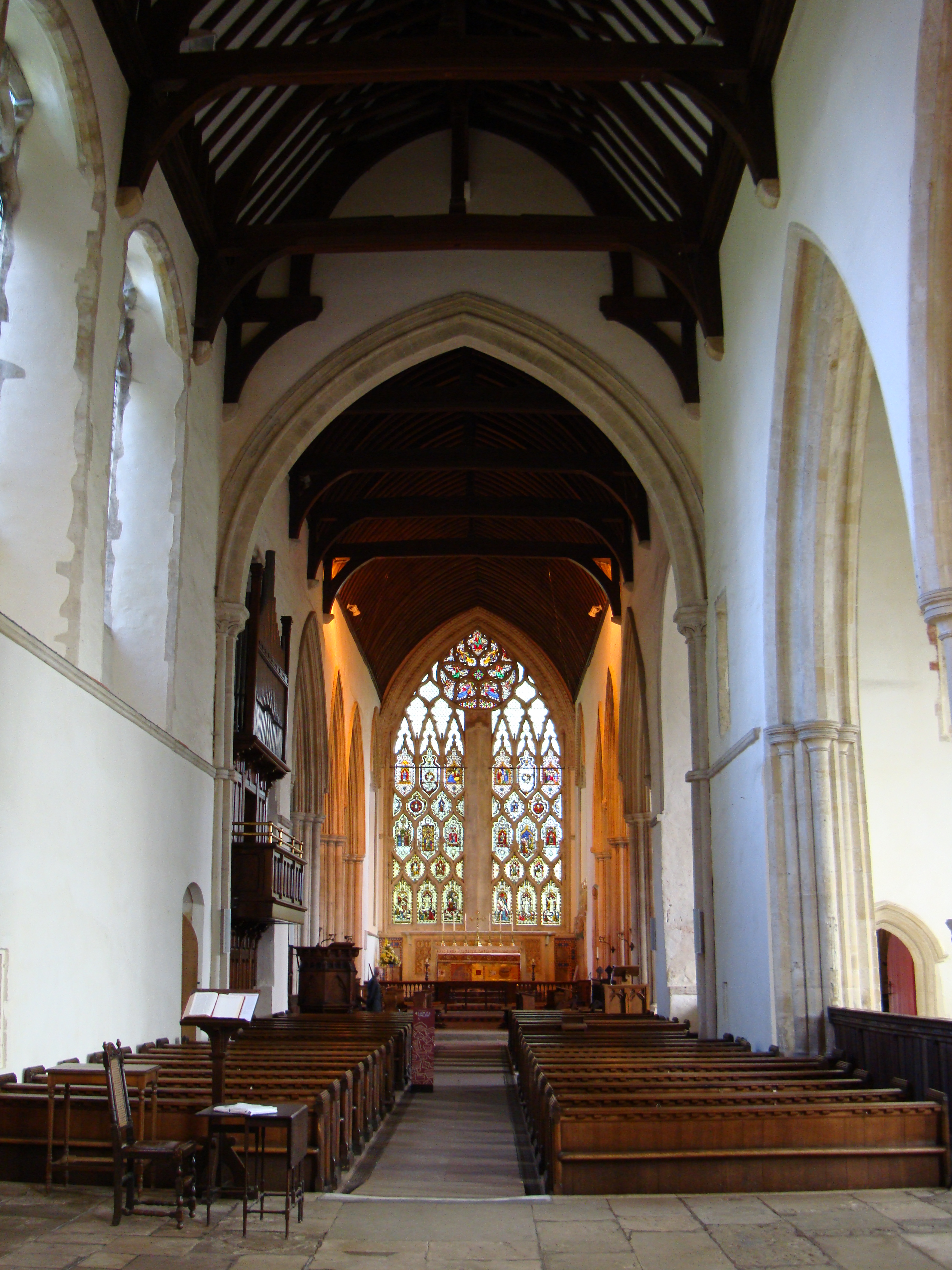 Photograph of the interior of Dorchester Abbey, Oxfordshire, United Kingdom, nave, altar and east window.